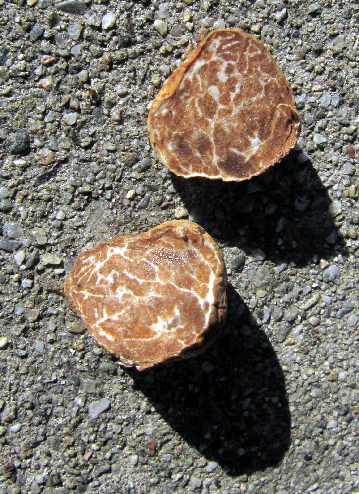 Fruit bodies of the Oregon truffle, species Tuber oregonense Trappe, Bonito & Rawlinson. Specimens found in Oregon, USA. "Notes: Spores measure 26 – 52 × 24 – 28 micrometers (not counting the ornamentation of course)."